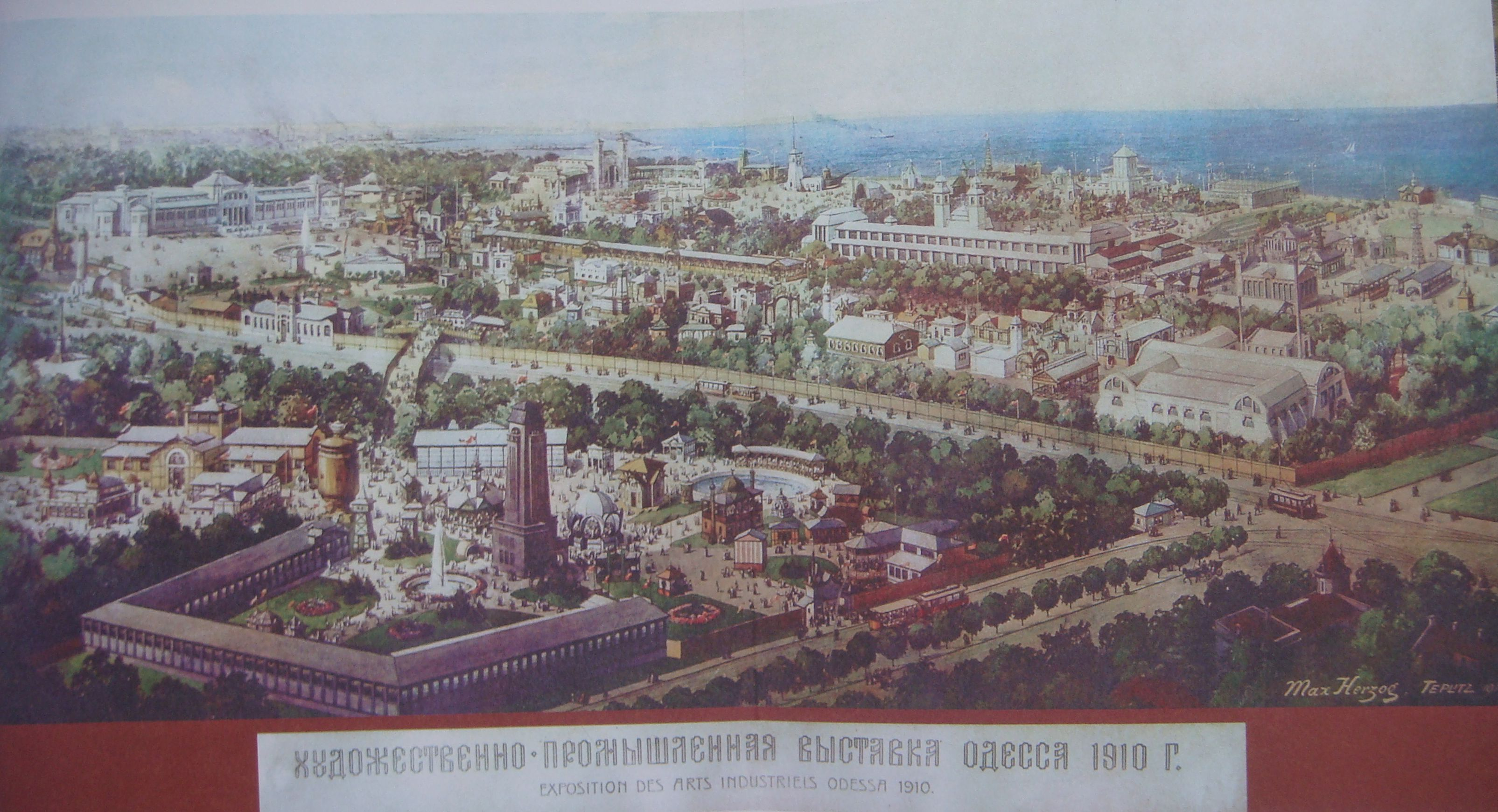 Bird view of Odessa Exposition of 1910